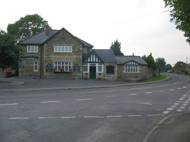 Harp and Crown, Gastard. A view looking to the west across the B3353, towards the Harp and Crown public house at Gastard. The signage on the building seems to have suffered somewhat.